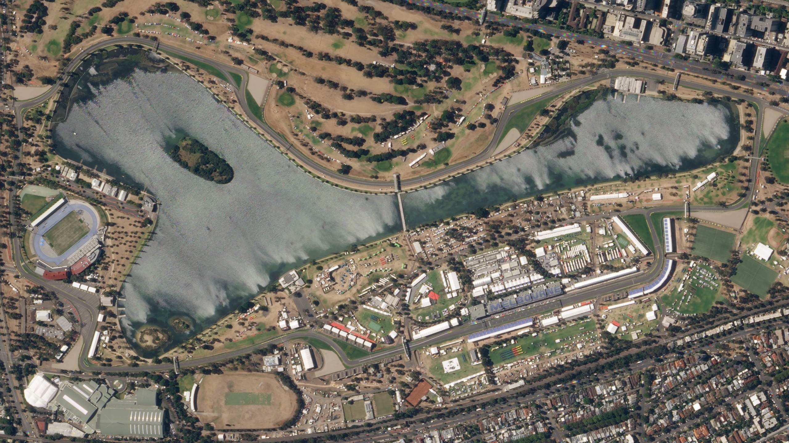 The Melbourne Grand Prix Circuit around Albert Park Lake, located a few kilometres south of central Melbourne and home to the Australian Grand Prix. This picture was taken by a Planet Labs SkySat satellite on March 22, 2018, just before race weekend.